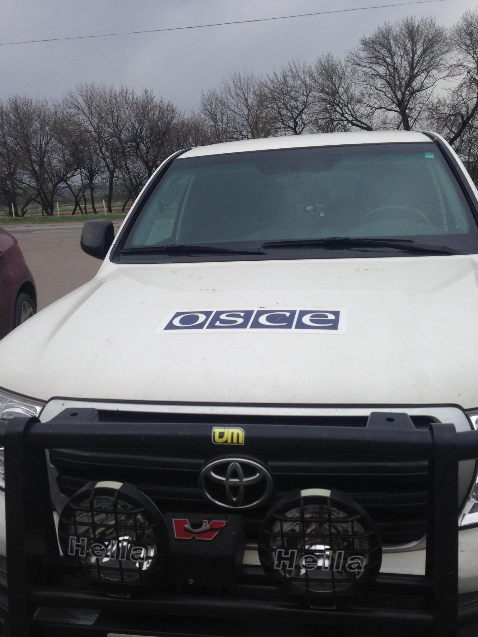 OSCE car between Sloviansk and Kramatorsk, Donetsk oblast, Ukraine, during the Sloviansk standoff. OSCE observers were not let into Sloviansk. The author of this photo, Aleksandr Sirota, visited his parents in Sloviansk on Easter holidays.